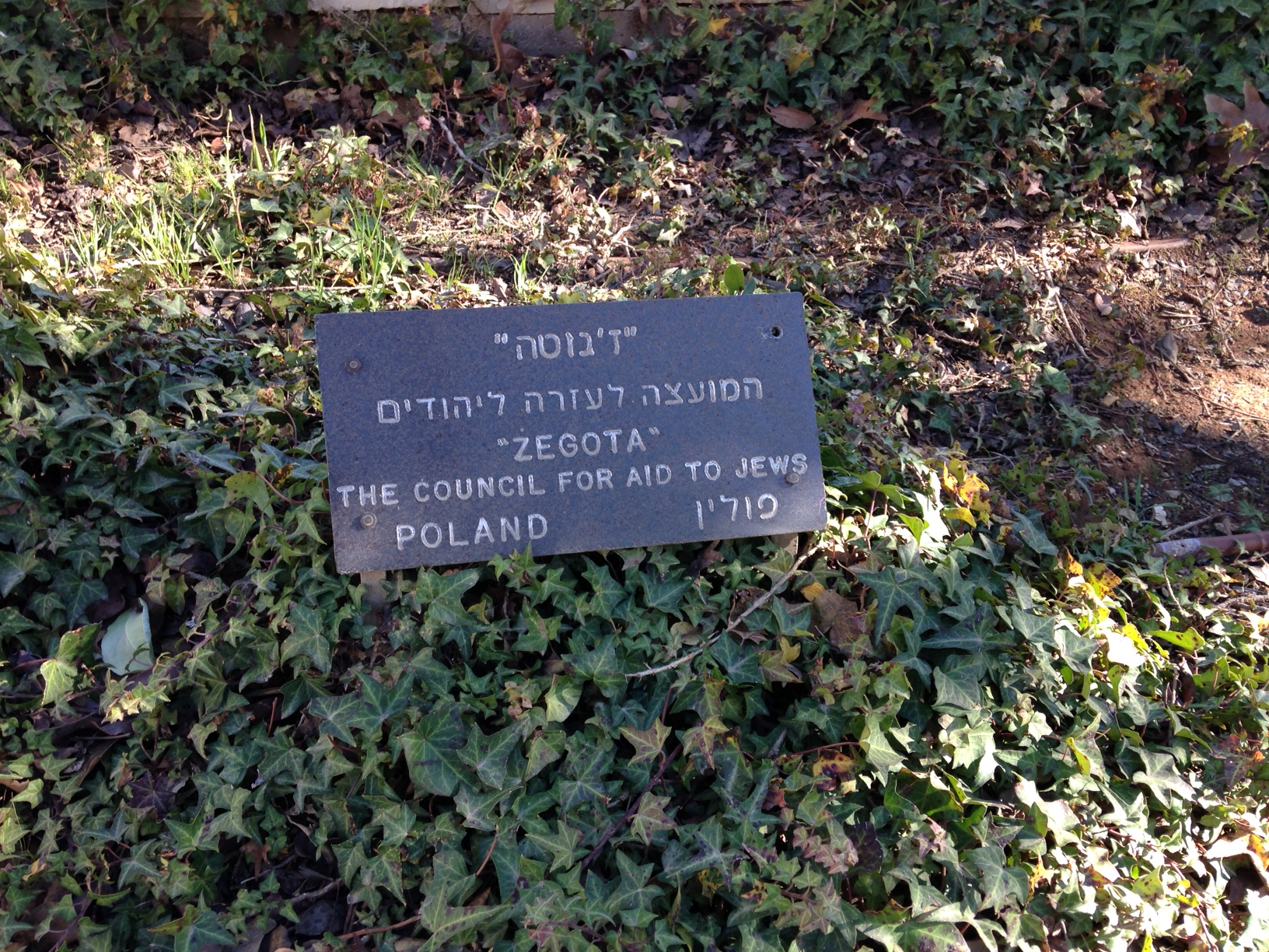 The photograph shows a commemorative plate dedicated to Żegota, the Polish Council to Aid Jews. The plate is located in Yad Vashem in Jerusalem, Israel.